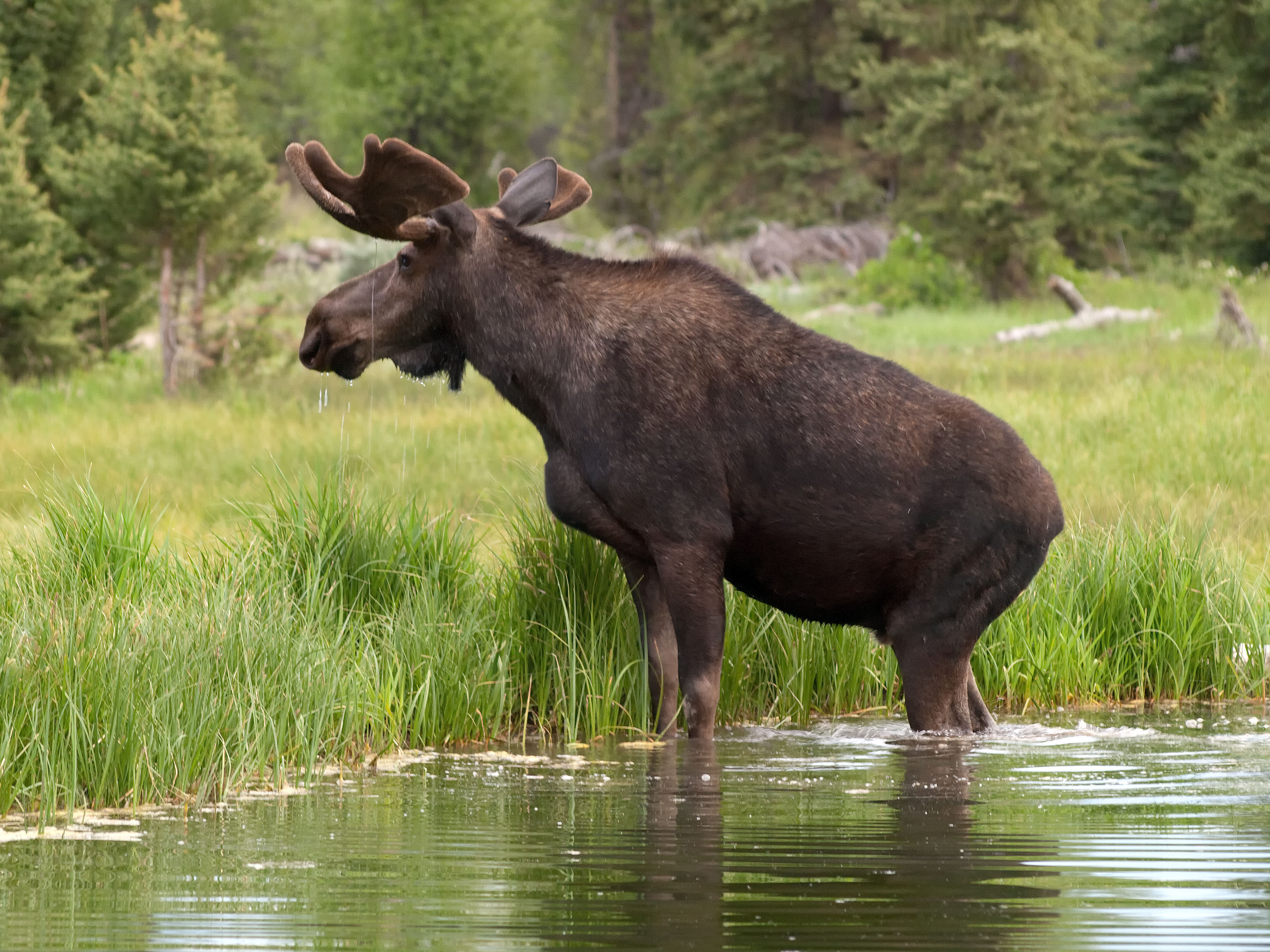 Bull moose browses beaver pond near Grand Tetons